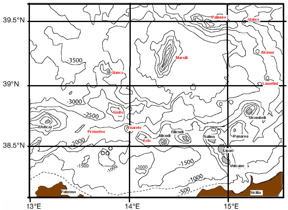 Aeolian arc, including coastline and depth contour lines for every 500 meters. The Aeolian islands are shown in gray (surface) with their respective names in black (including the island of Ustica at coordinates 38.5°N and 13°E). The names of Aeolian arc seamounts are shown in red. The brown area is Sicily. Redesigned and modified from an image taken from the work of Paolo Favali et al., Annals of Geophysics 49(2/3), p. 794, 2006.